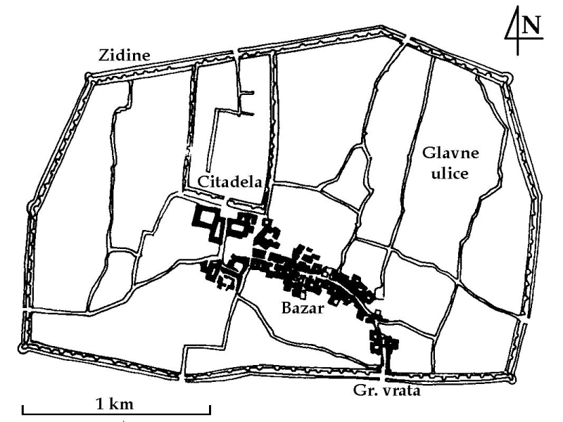 Teheran citadel in late 18 century (Croatian description)